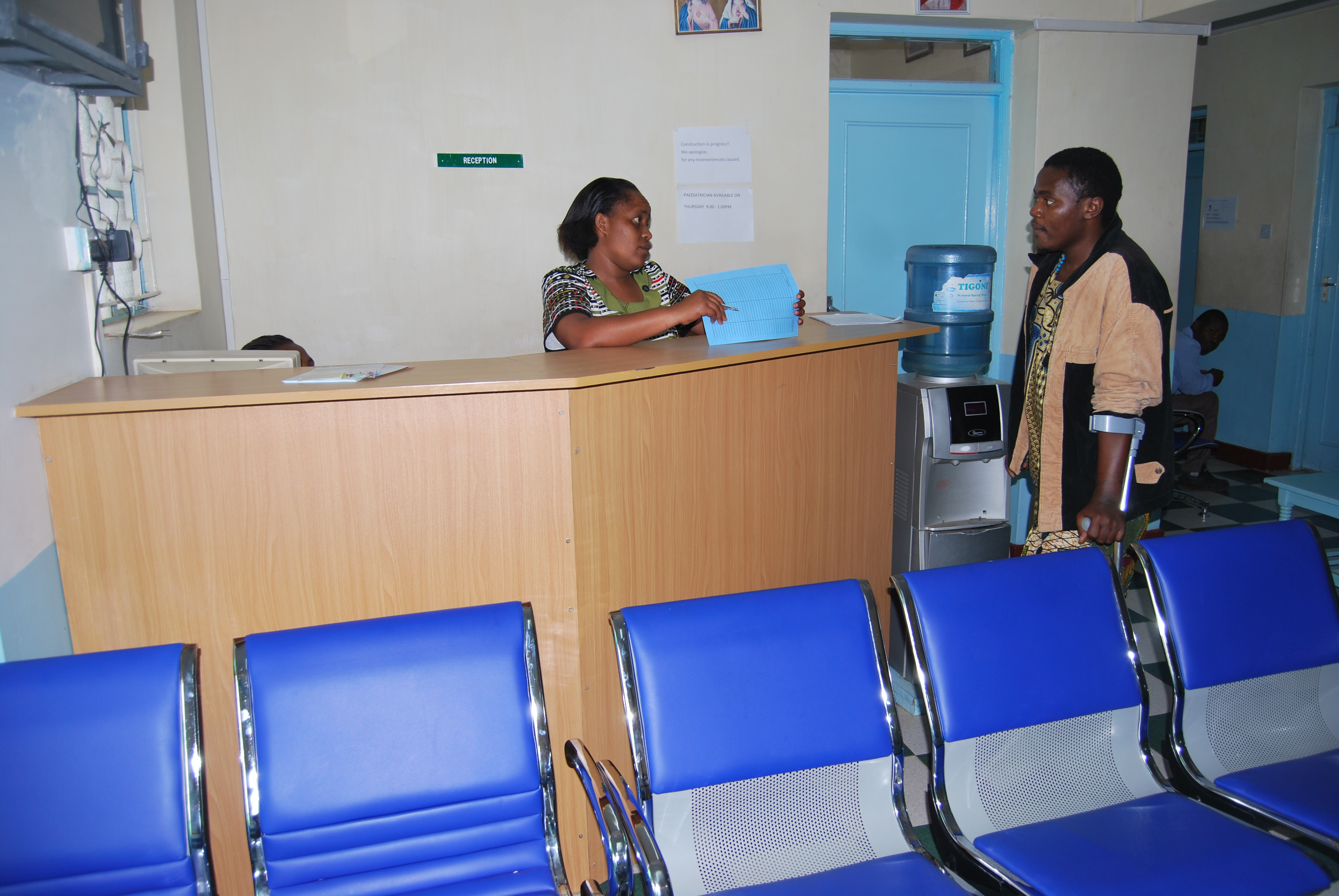 we love and respect life